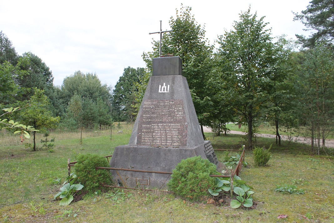 Monument in memory of partisans, Noruliai, Varėna district, LithuaniaLietuvių: Norulių paminklas partizanams atminti, Varėnos rajono savivaldybė, Lietuva